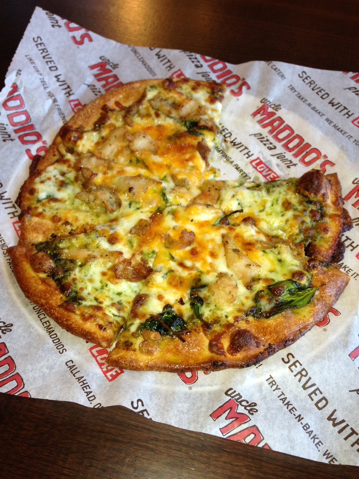 A made-to-order personal pizza from Uncle Maddio's Pizza Joint.